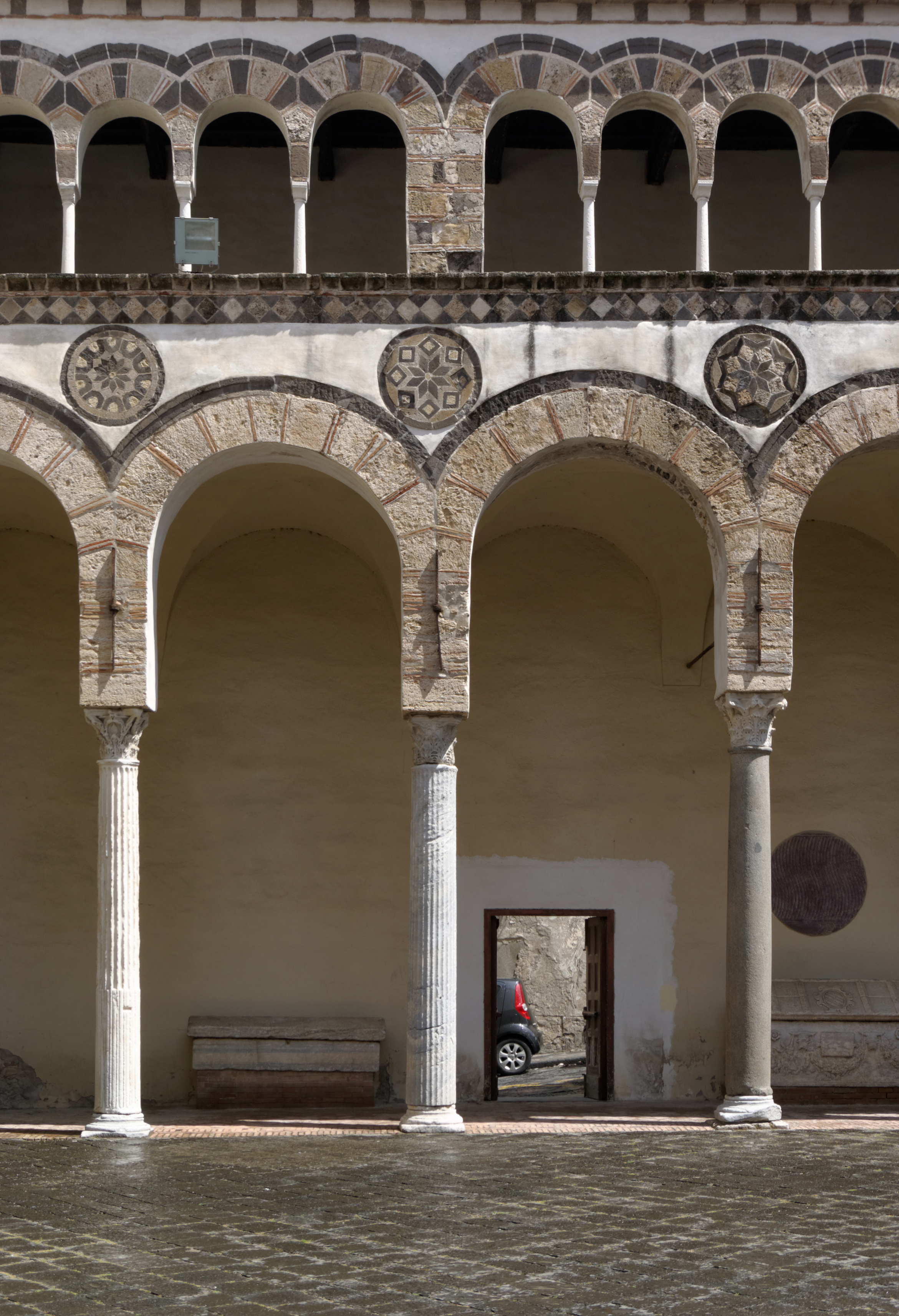 Salerno, San Matteo, Cloister